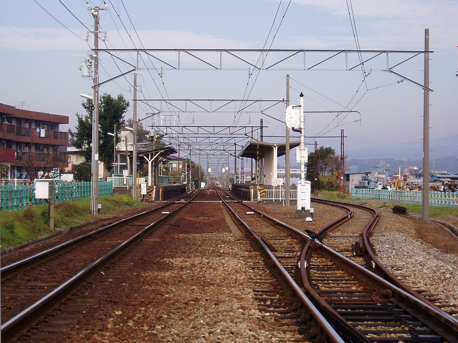 Isuhakone Railway Company, Baraki Sta. 2007.11.26 Photo by Cassiopeia_sweet.